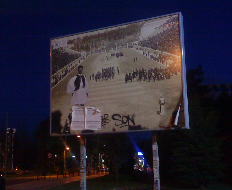 Spyros Louis sign Maroussi